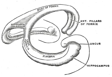 Diagram of the fornix. (Spitzka.)